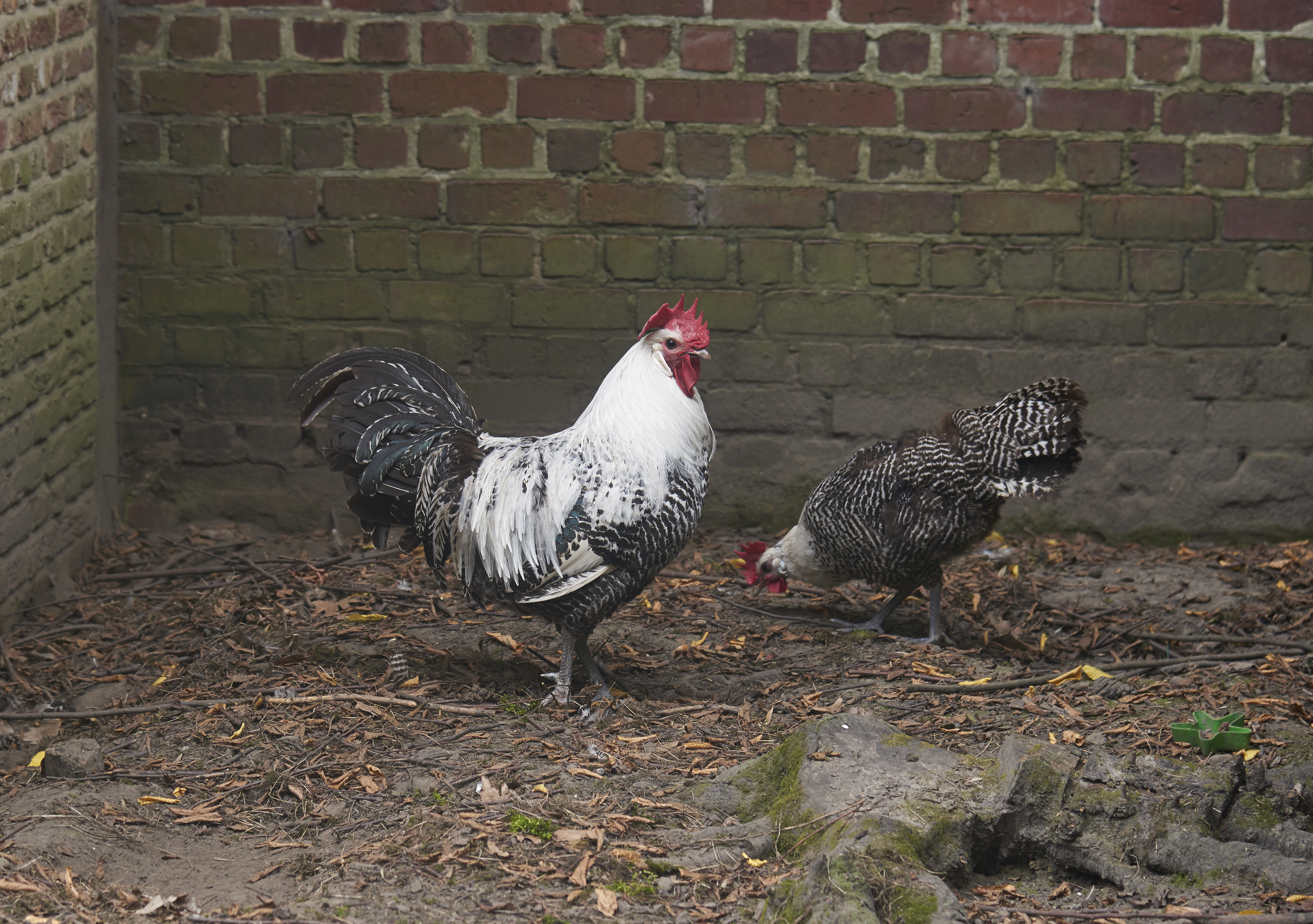 Braekel in the Kruidtuin in Leuven, Belgium